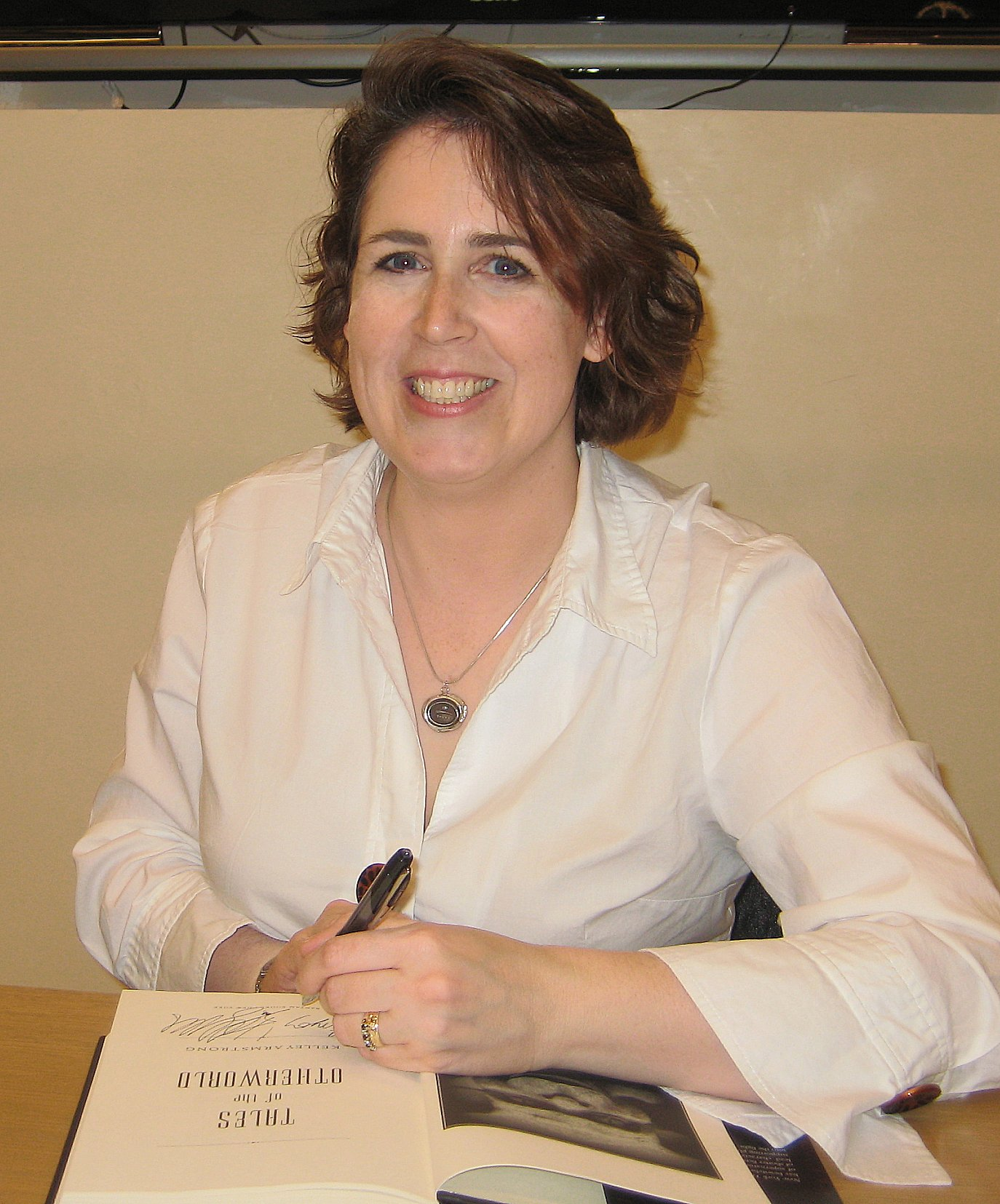 Signing THE RECKONING at Legacy Books